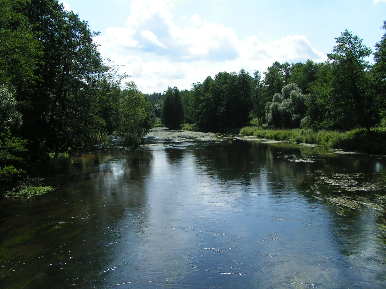 River Merkys in Perloja